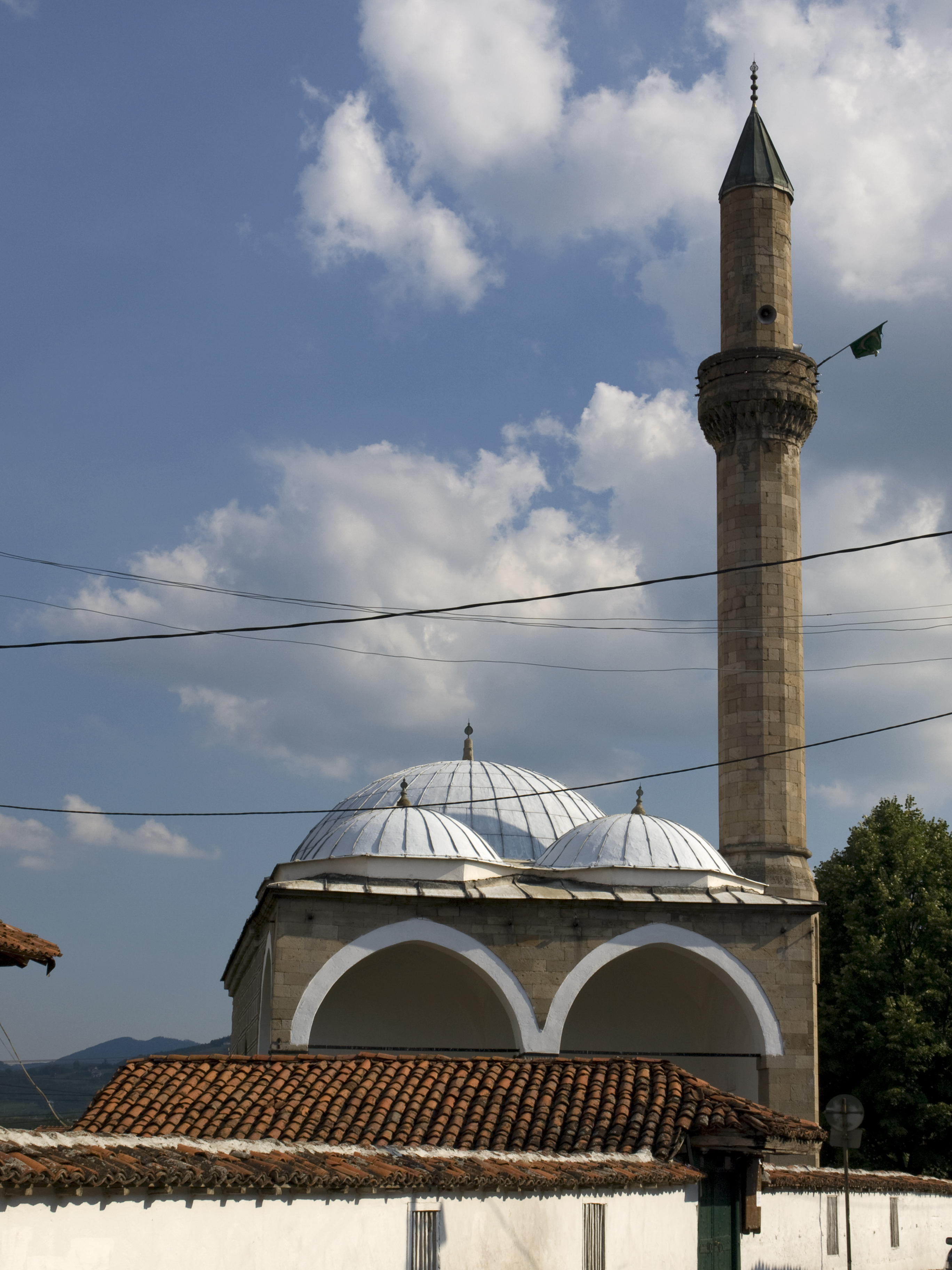 Altun-alem Mosque is a mosque located in Novi Pazar, Serbia. It was built in XVI century by Muslihudin Abduagani.